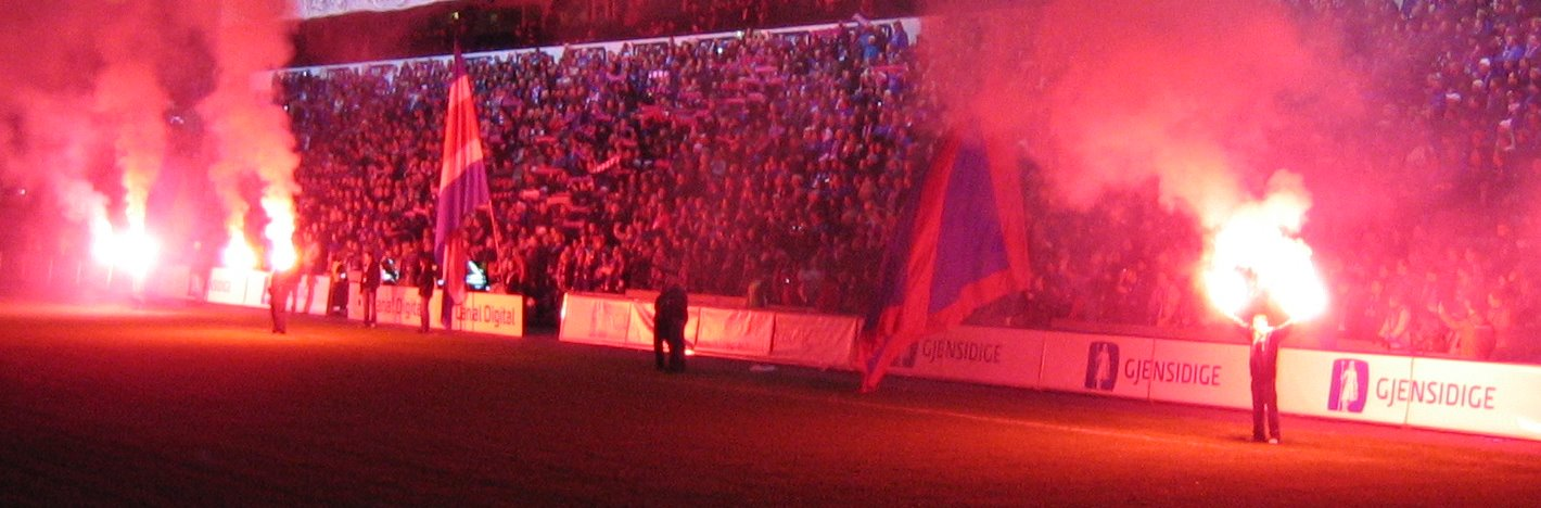 Vålerenga I.F supporters from Klanen celebrating the clubs bronze medal after the final game of the 2006 season